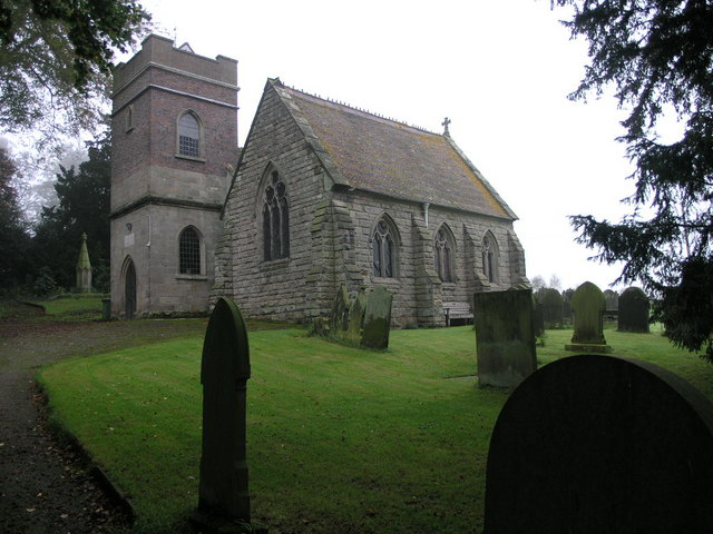 St James the Less The small church in Fradswell is dedicated to St James the Less.